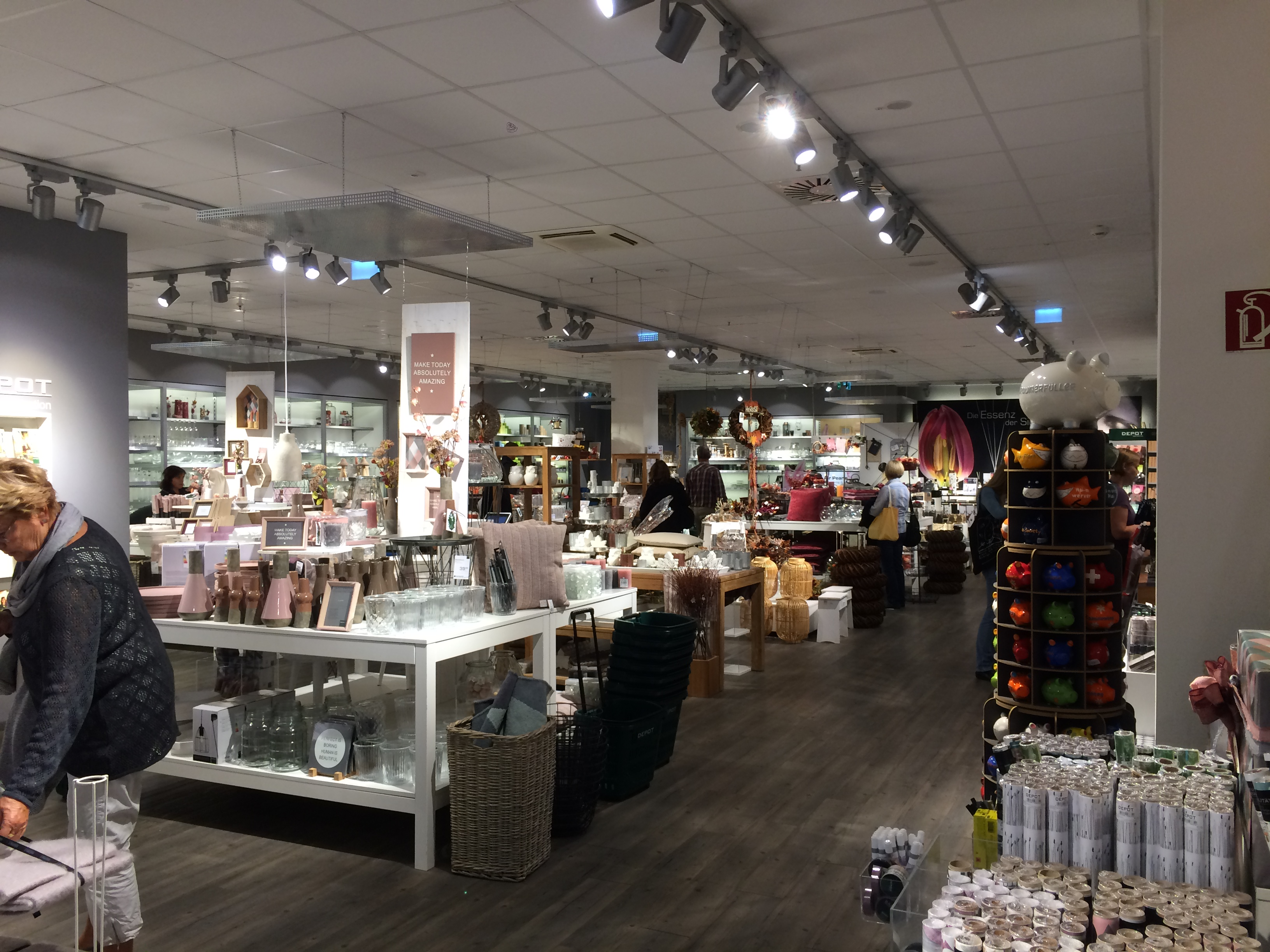 Depot Shop Inside